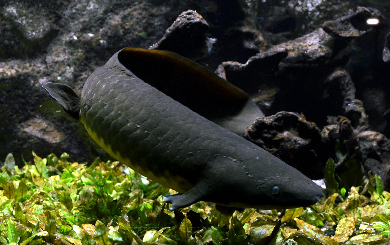 Australian lungfish ( Neoceratodus forsteri ). Aquarium tropical du Palais de la Porte Dorée, in Paris.